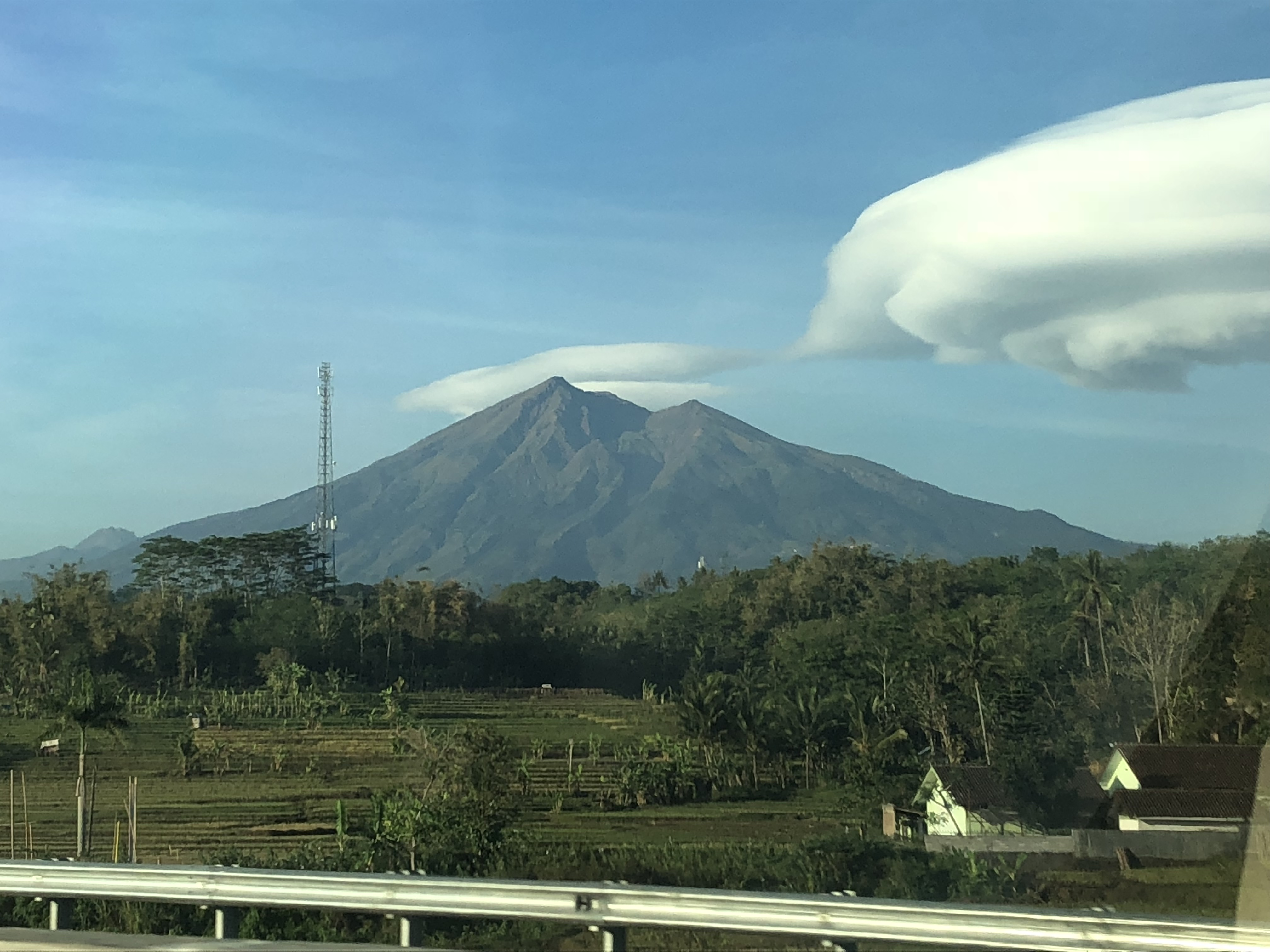 mtmerbabu